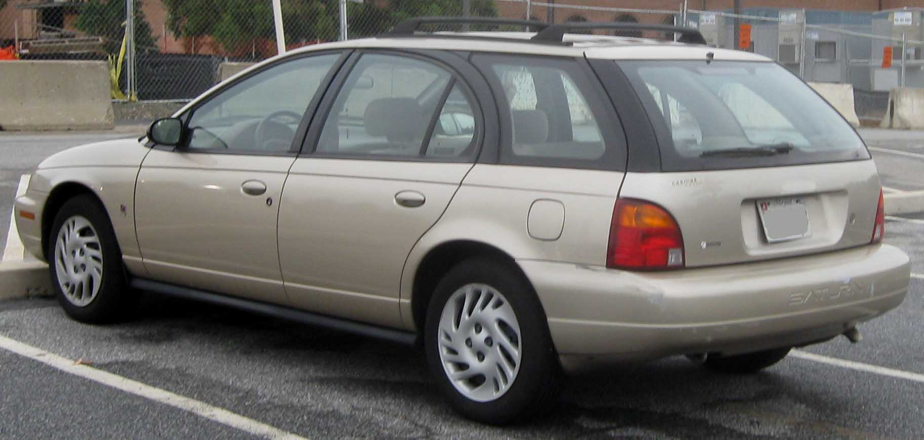 1996-1999 Saturn SW photographed in College Park, Maryland, USA.